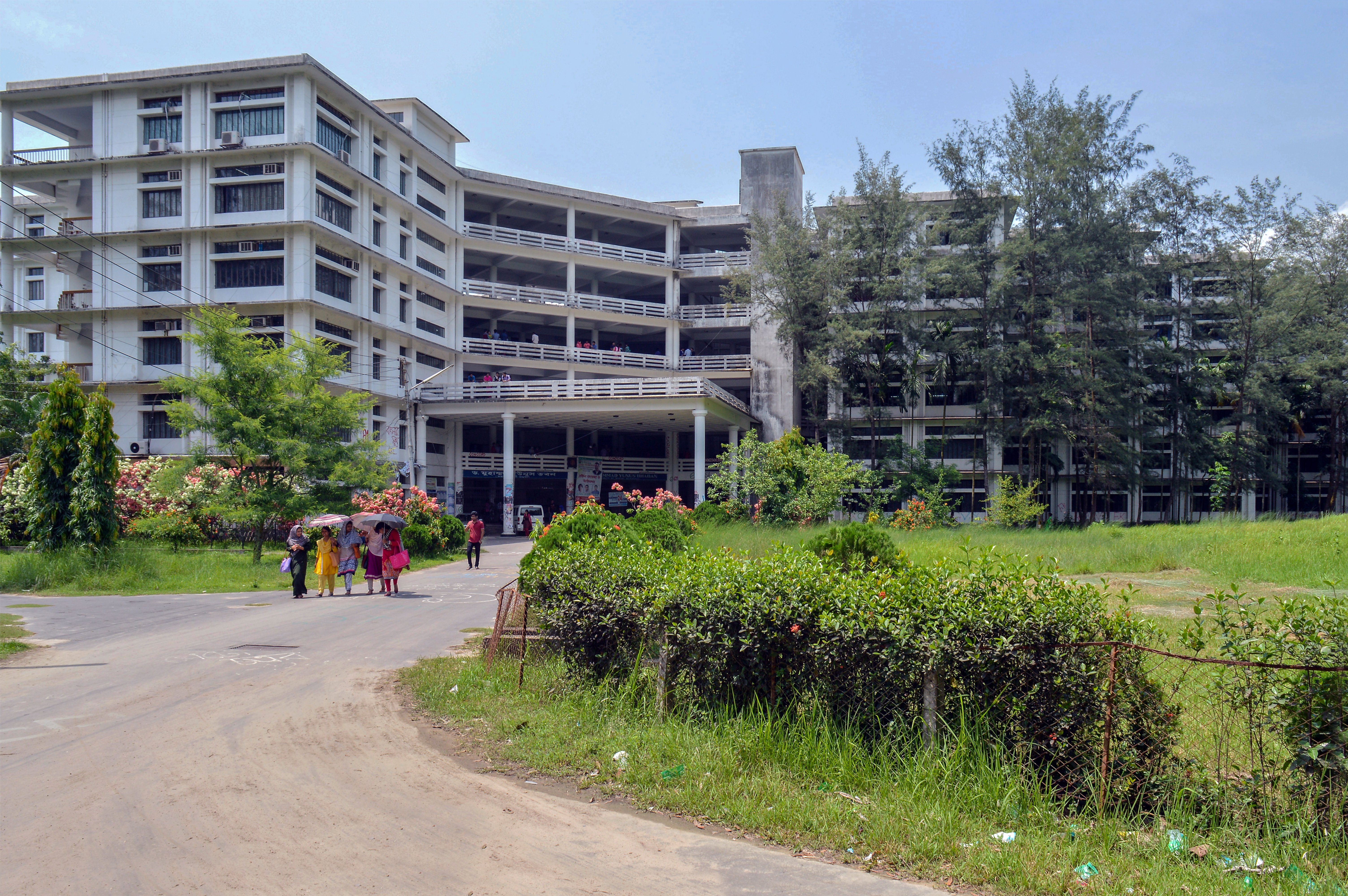 Dr. Muhammad Yunus Bhaban, Faculty of Social Sciences, University of Chittagong (south-west axis)